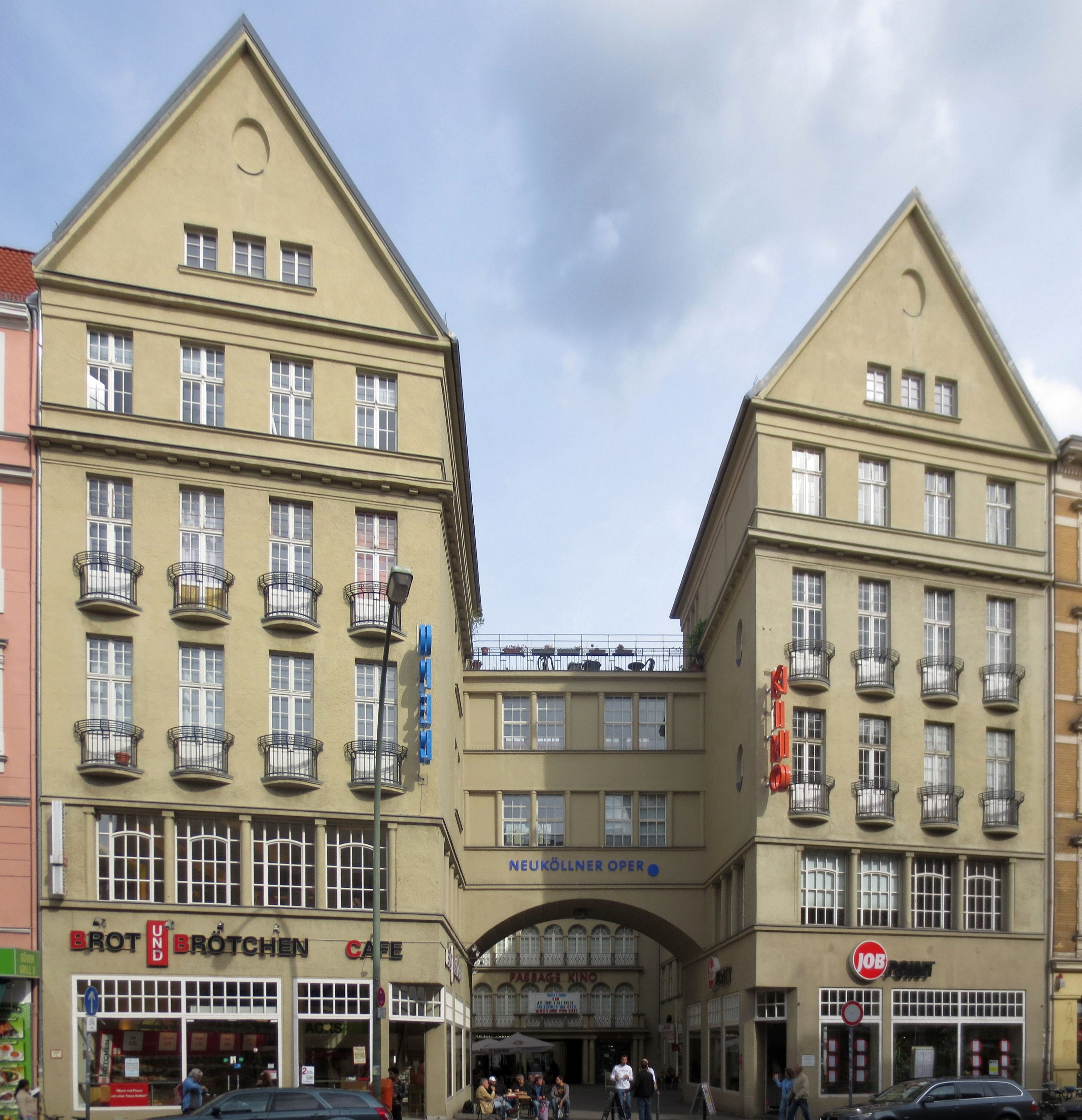 The Passage Neukölln at Karl-Marx-Straße No. 131/133 in Berlin-Neukölln. The complex between Karl-Marx-Straße and Richardstraße was built in 1909 to a design by Reinhold Kiehl. In is now used by the theater "Neuköllner Oper" and the "Passage Kino" cinema. The complex has been designated as a cultural heritage monument.